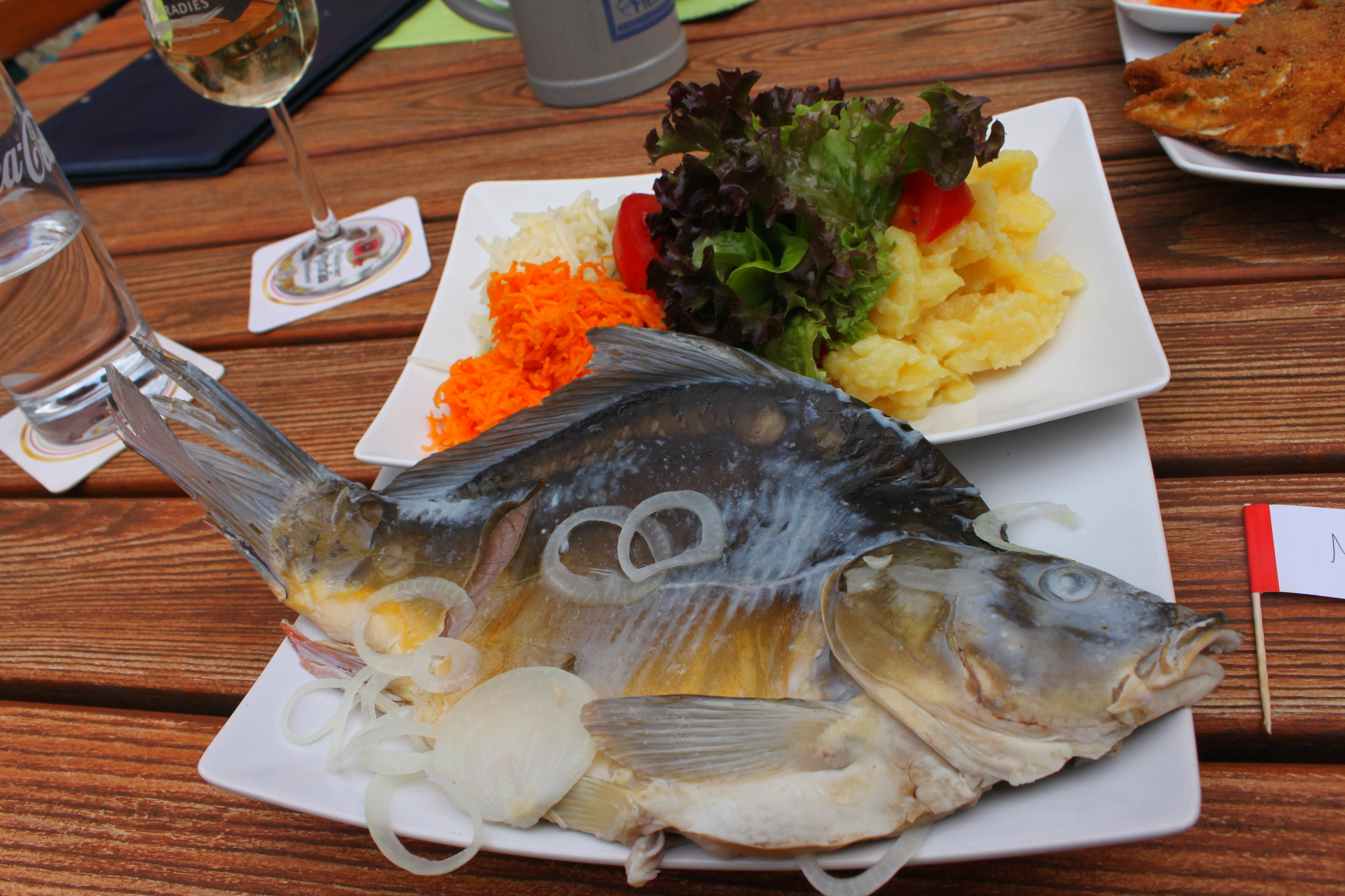 Poached Carp, cooked in vinegar, onion stock with mixed salad as a side dish. Photographed at Gasthaus zum Hirschen in Bad Windsheim.